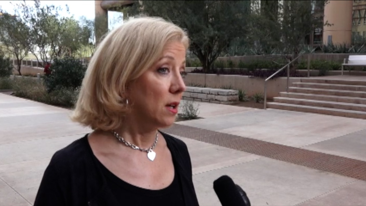 Beth Karas I interviewed Beth Karas during the Jodi Arias Sentencing Retrial in 2015 and own this photo.